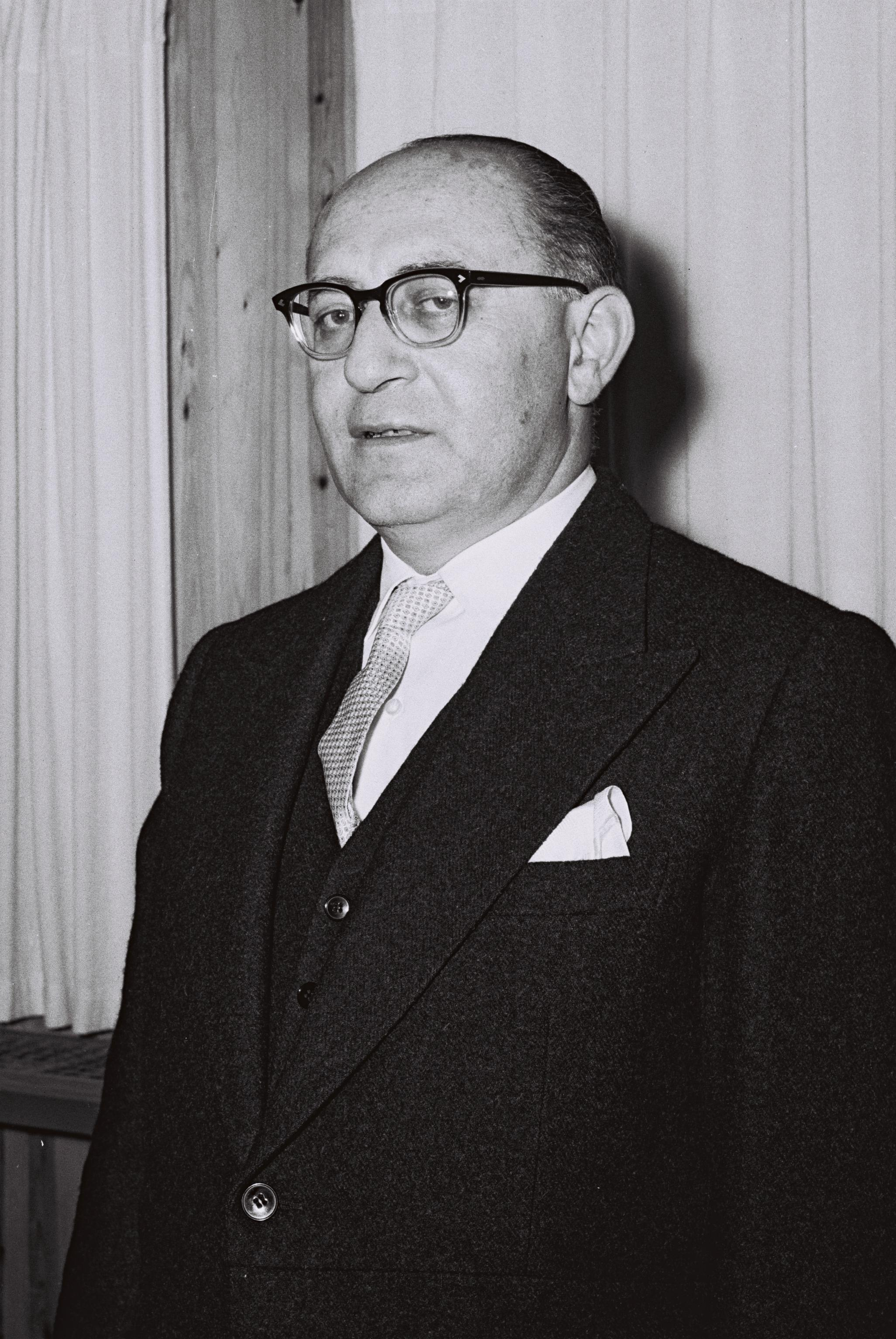 Dr. Haim Yahil director general of the foreign ministry.